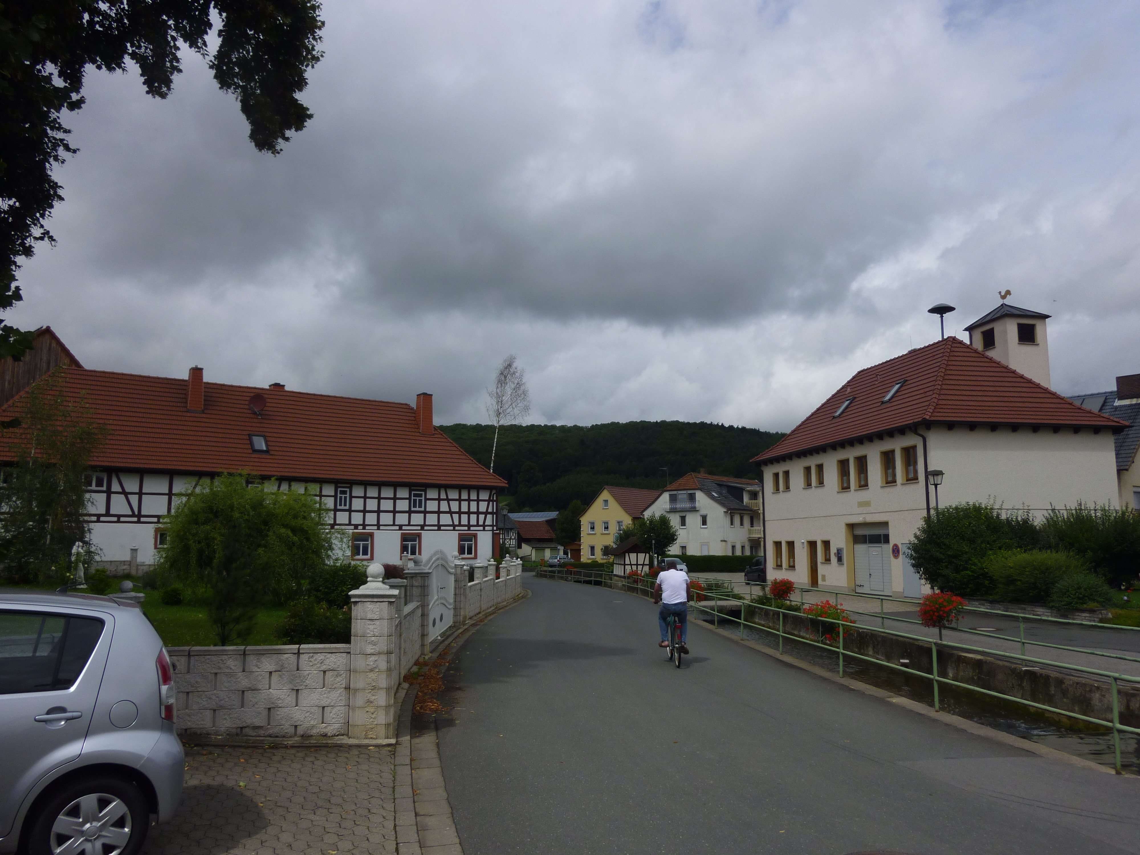 View to the center of Stublang a distric of Bad Staffelstein.